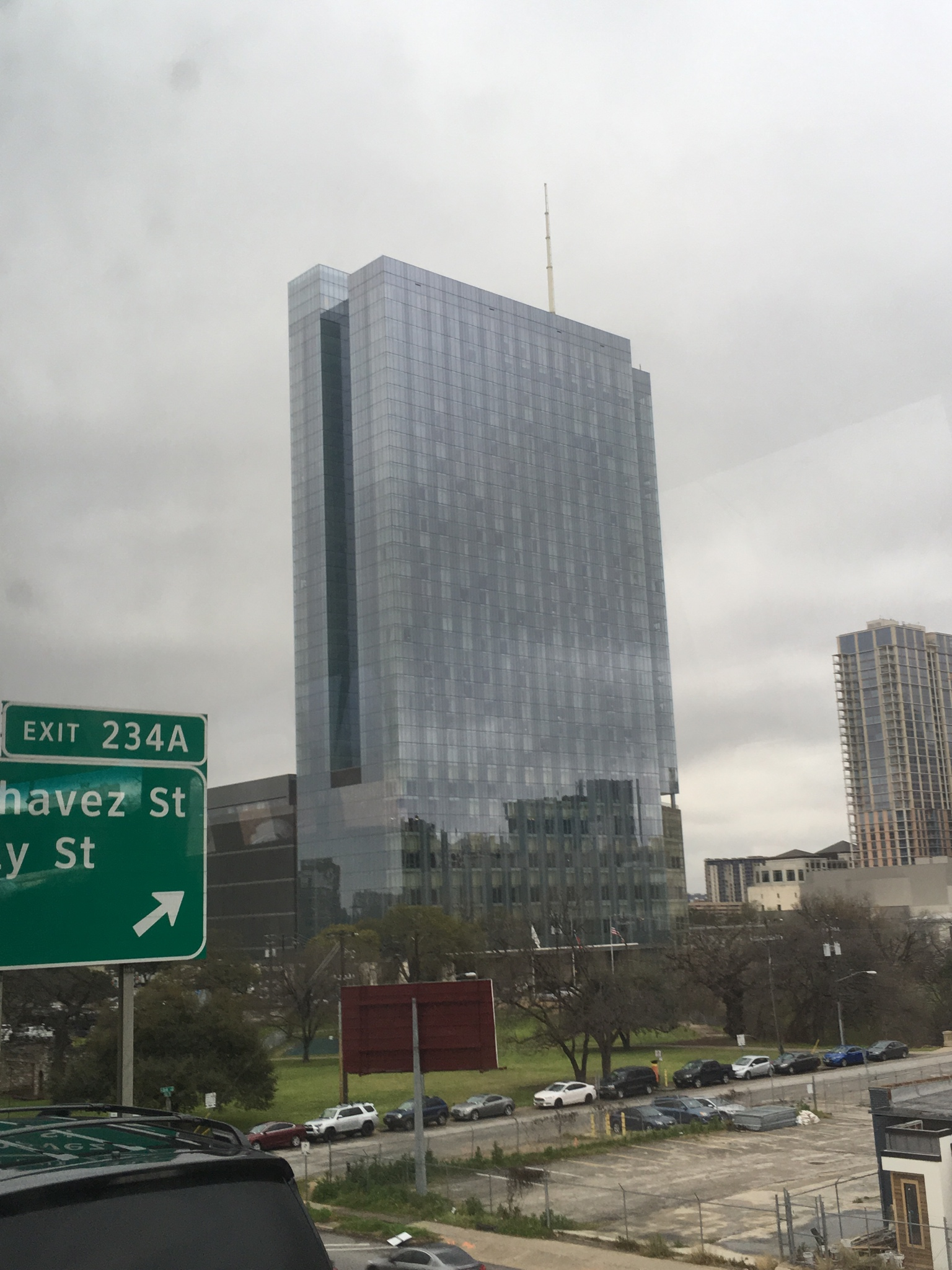 A picture of the Fairmont Austin on an overcast day.